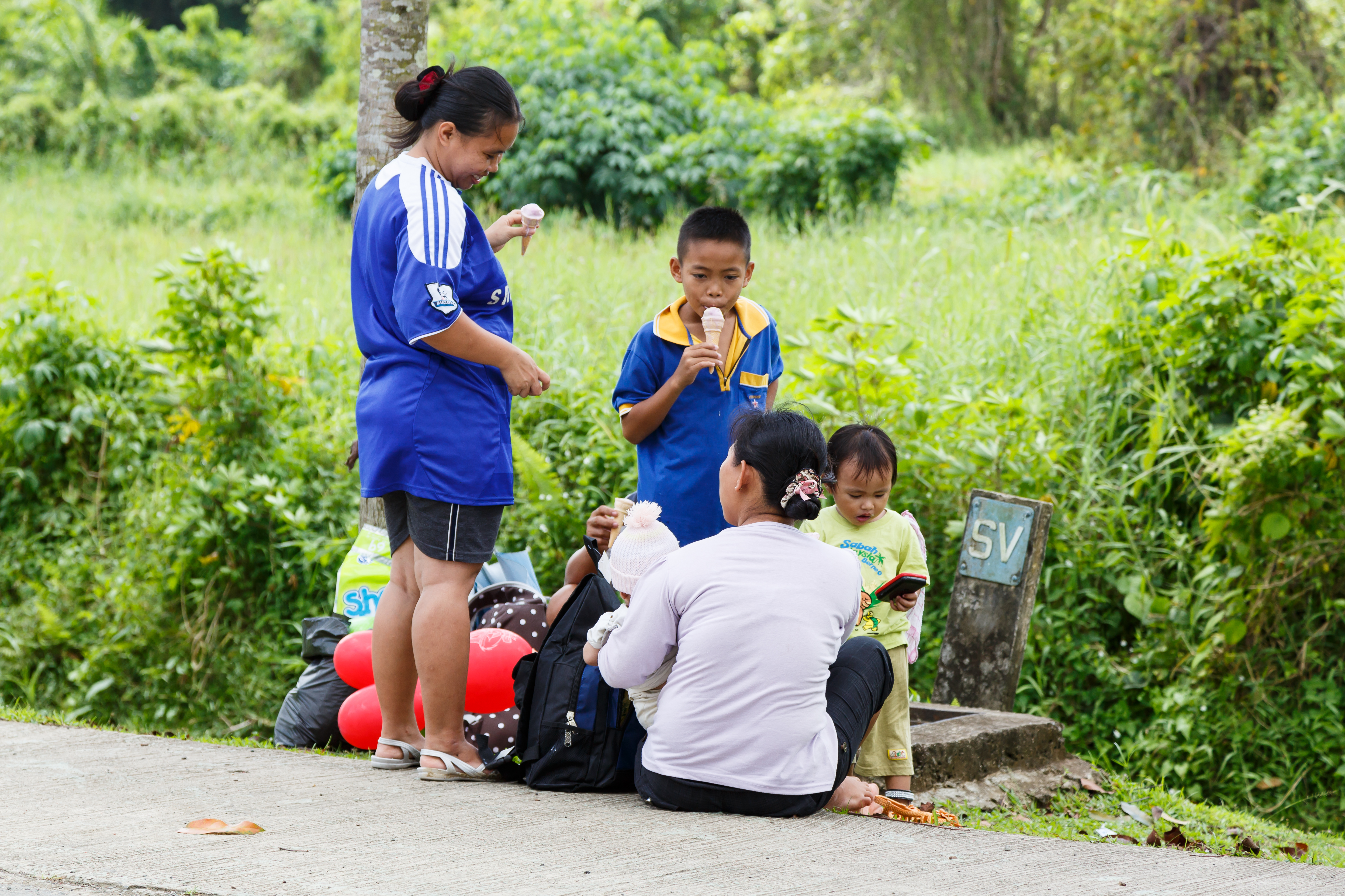 Sandakan, Sabah: Students of SJK (C) Ming Chung, Sandakan with her mother, enjoying ice cream outside the school compound